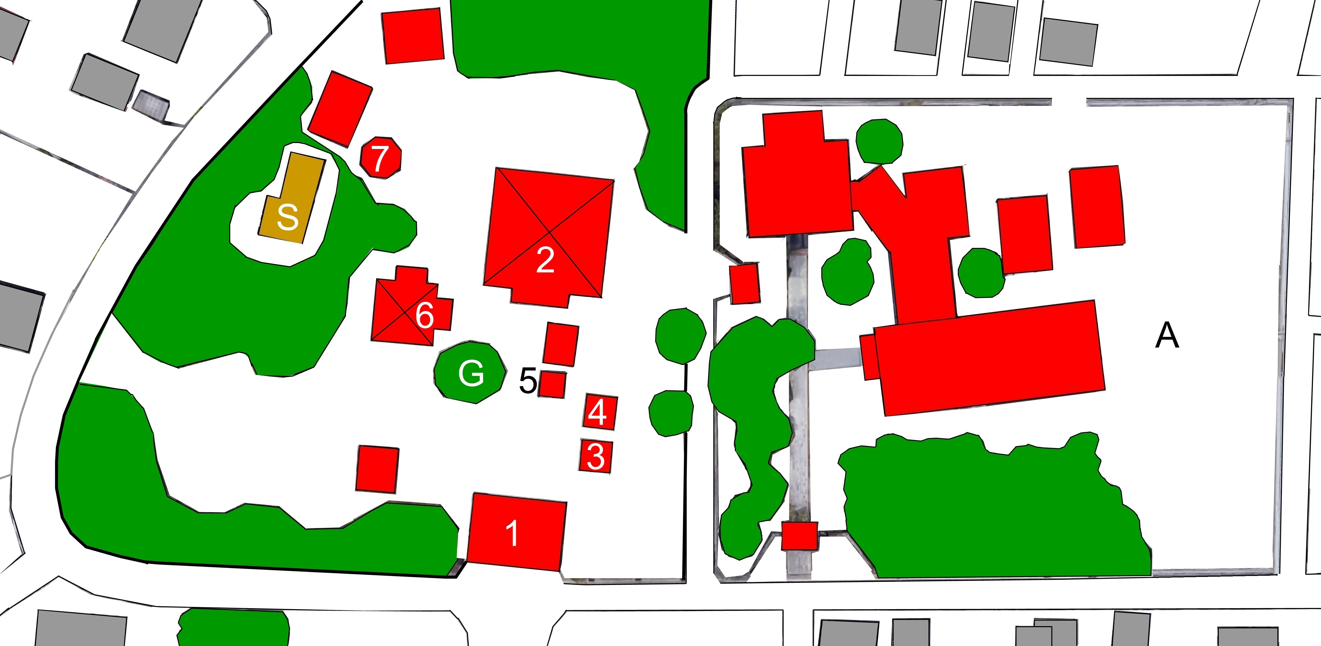 Layout of Shôfuku-ji (Odawara) temple, Japan